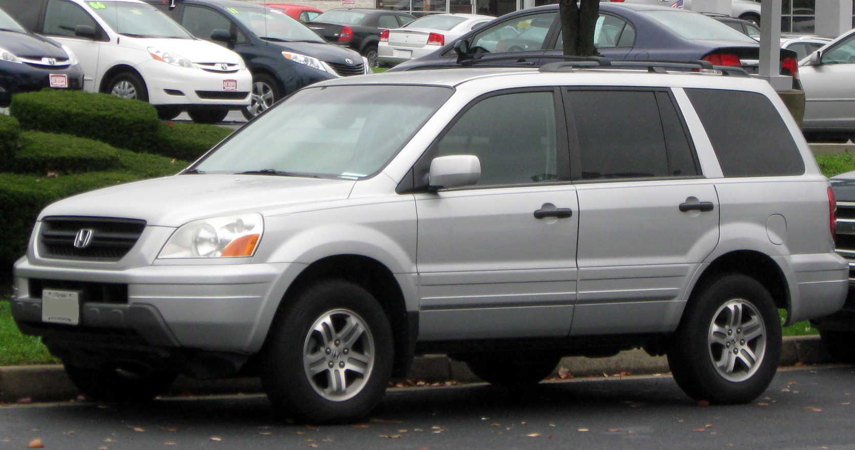 2003-2005 Honda Pilot photographed in Clarksville, Maryland, USA.